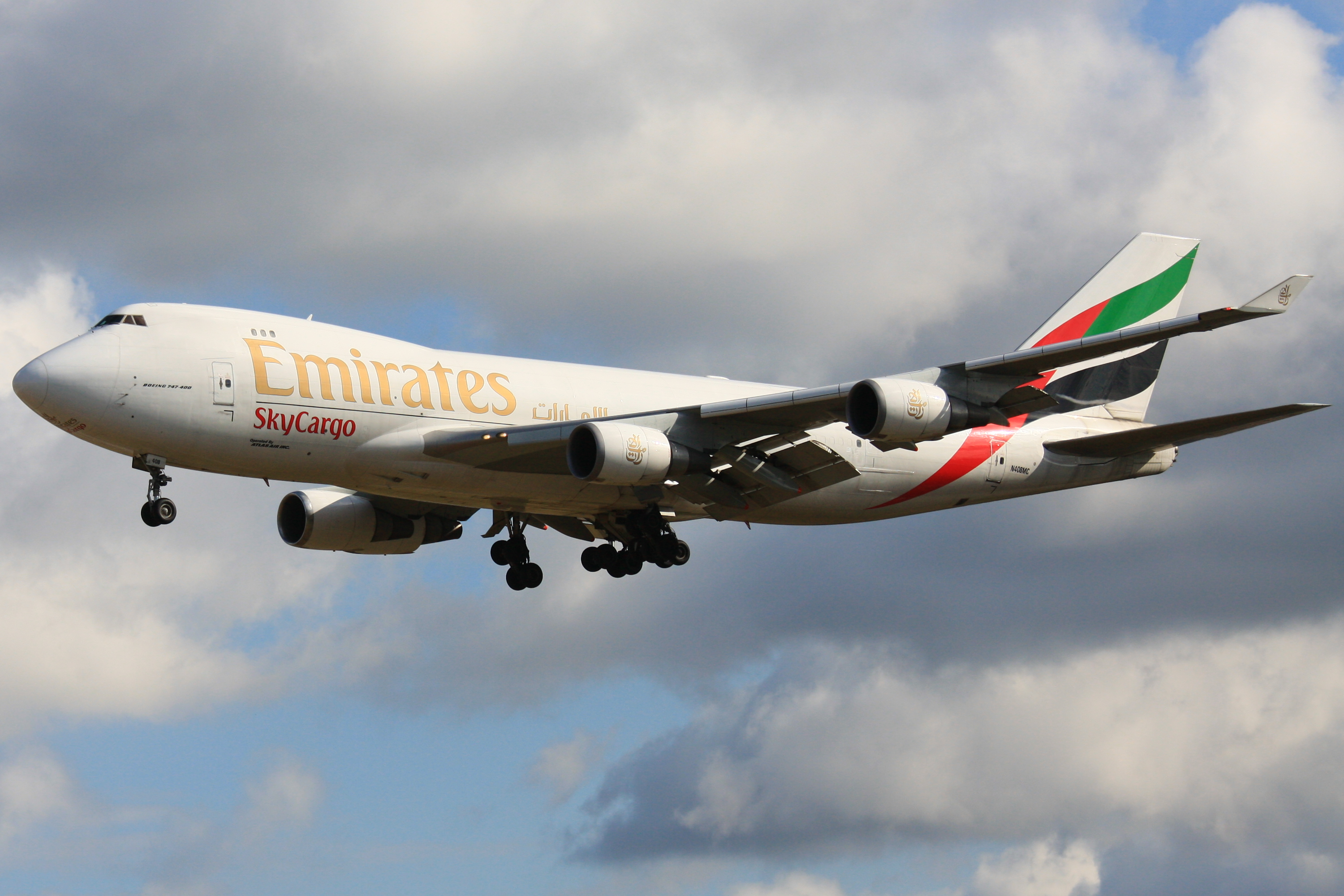 A Boeing 747-400F of Emirates Airlines landing at Frankfurt Airport Other photographs in this sequence : File:2010-07-15 B747 Emirates N408MC EDDF 01.jpg File:2010-07-15 B747 Emirates N408MC EDDF 03.jpg File:2010-07-15 B747 Emirates N408MC EDDF 04.jpg File:2010-07-15 B747 Emirates N408MC EDDF 05.jpg